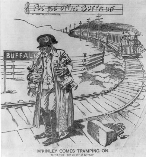 Political cartoon of U.S. Presidential candidate William McKinley dressed as Napoleon, with delegates under his arms, at Buffalo. McKinley competitor for the nomination Levi P. Morton tries to exist train. Also at